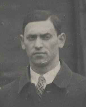 The Hungarian football trainer Jules Turnauer in 1932